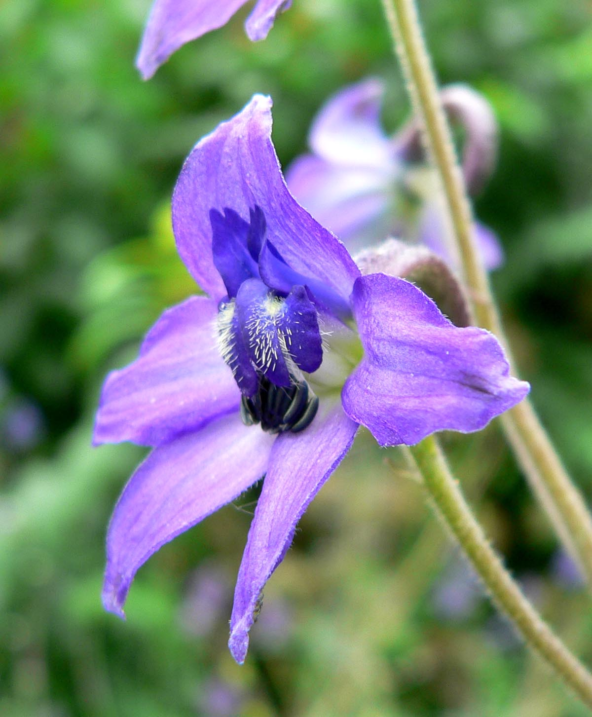 Photo of Delphinium ceratophorum at the UBC Botanical Garden in Vancouver